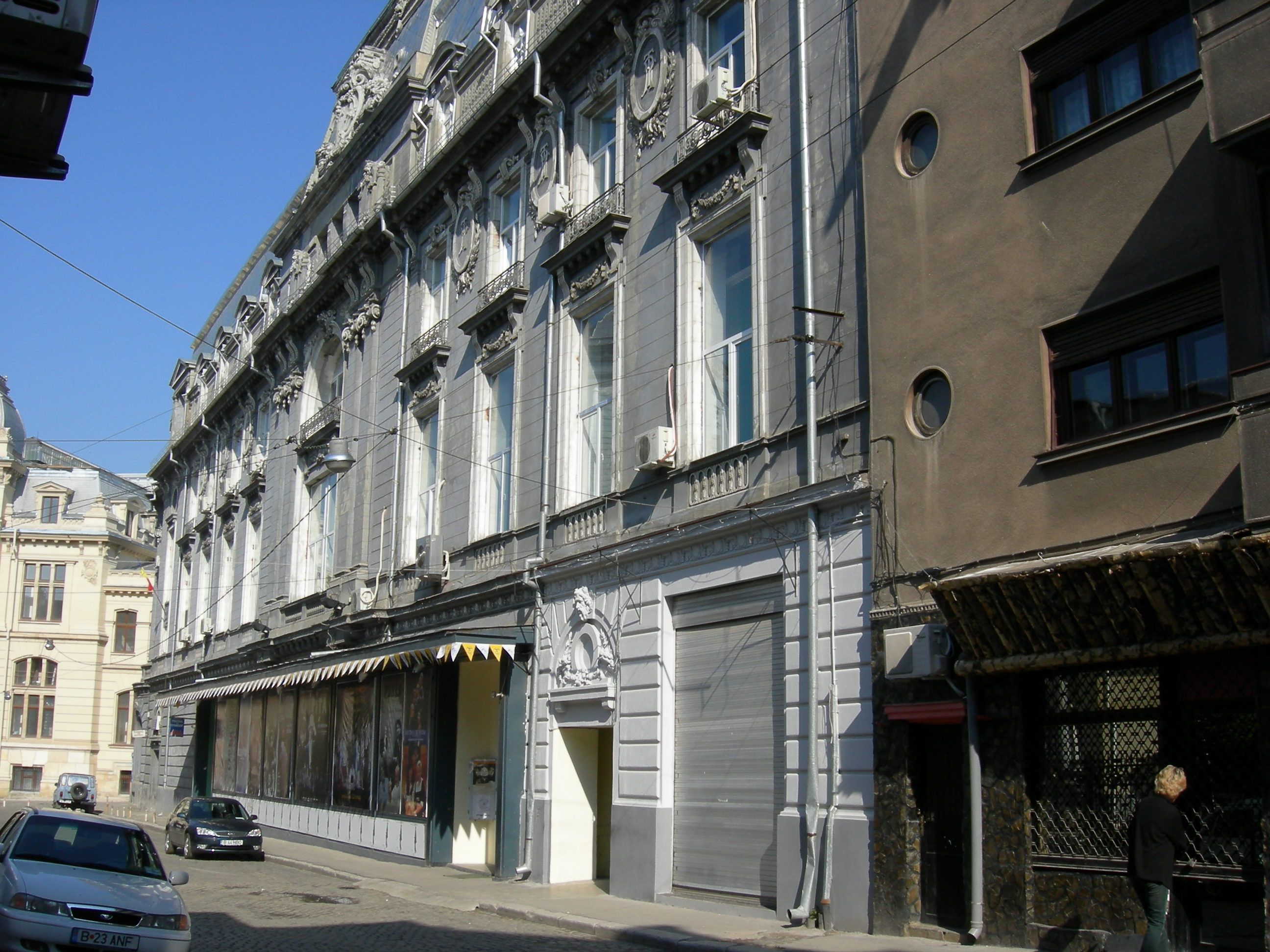 Teatrul Comedie (Comedy Theater), Lipscani district, Bucharest, Romania.